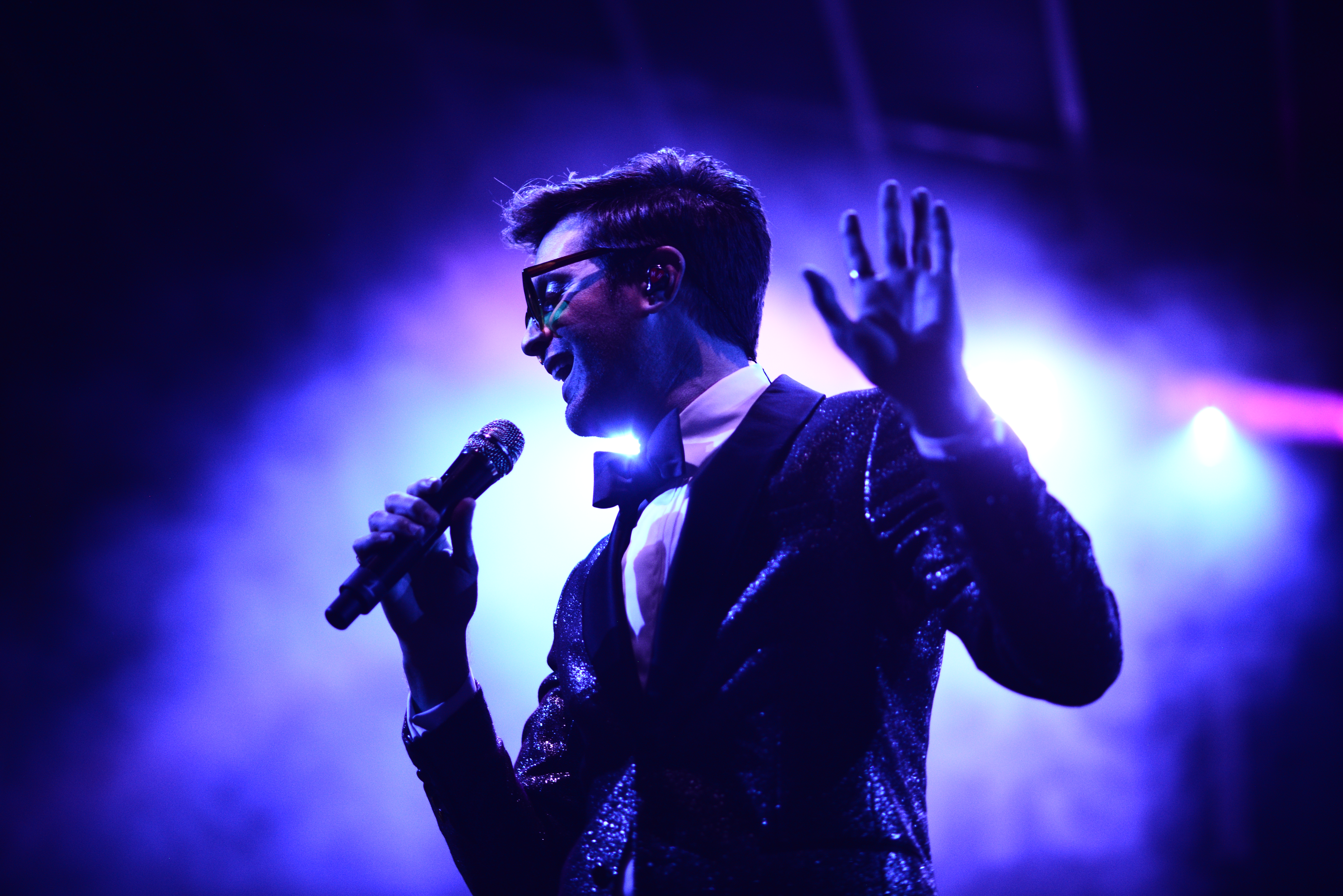 Mayer Hawthorne performing with Tuxedo at The Natural Museum in Los Angeles on 6-1-2018